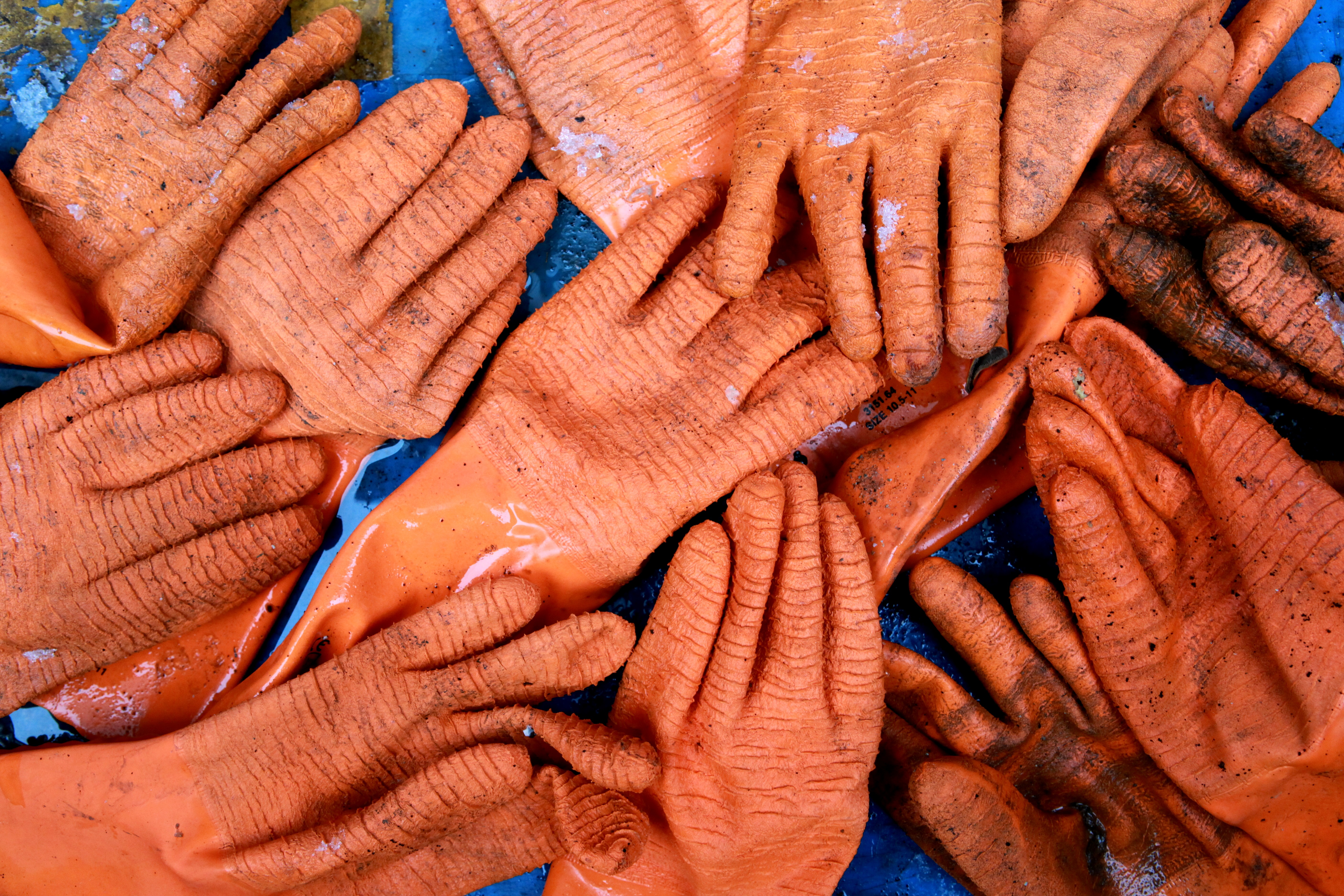 Gloves